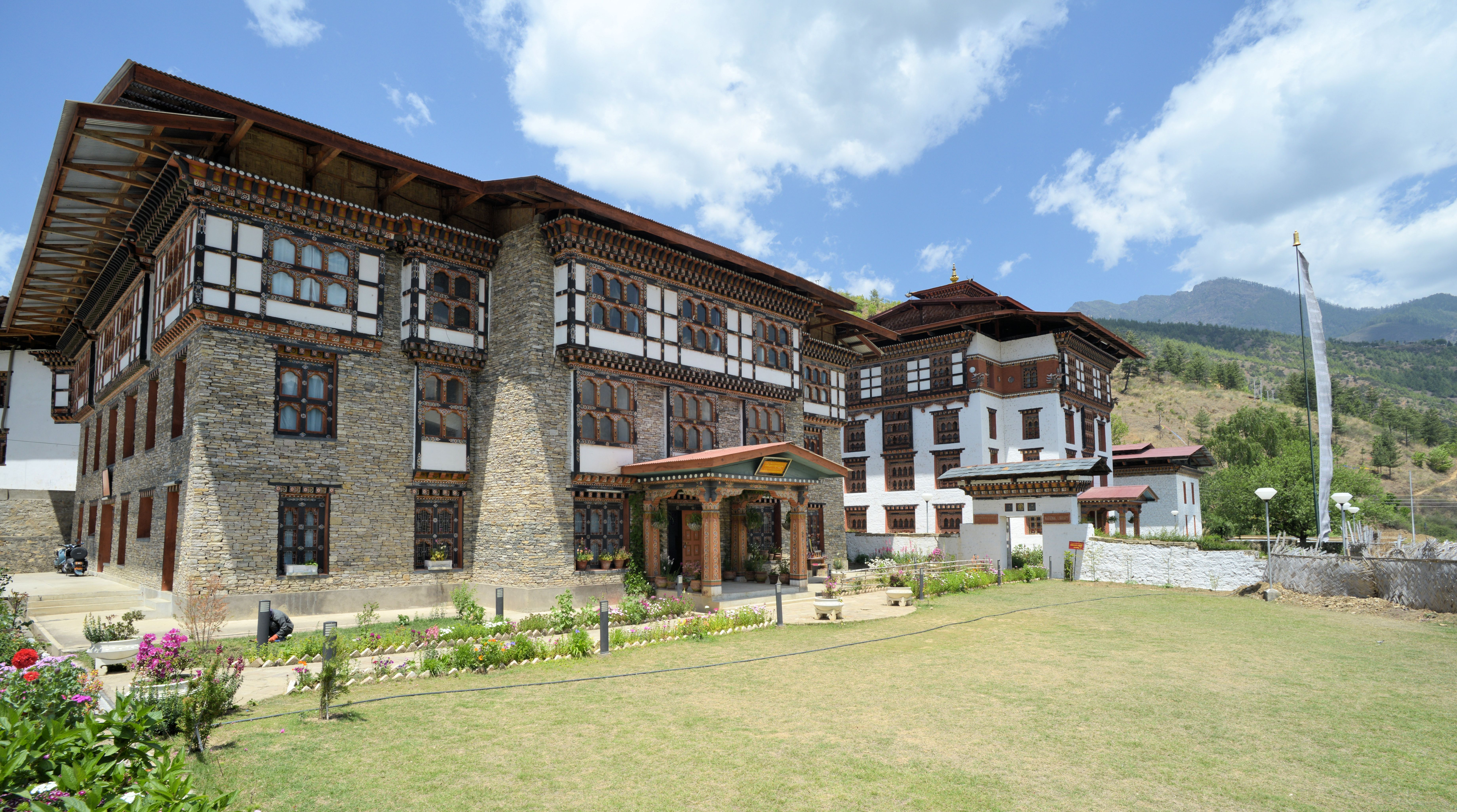 The National Library and Archives of Bhutanཇོང་ཁ: འབྲུག་རྒྱལ་ཡོངས་དཔེ་མཛོད།